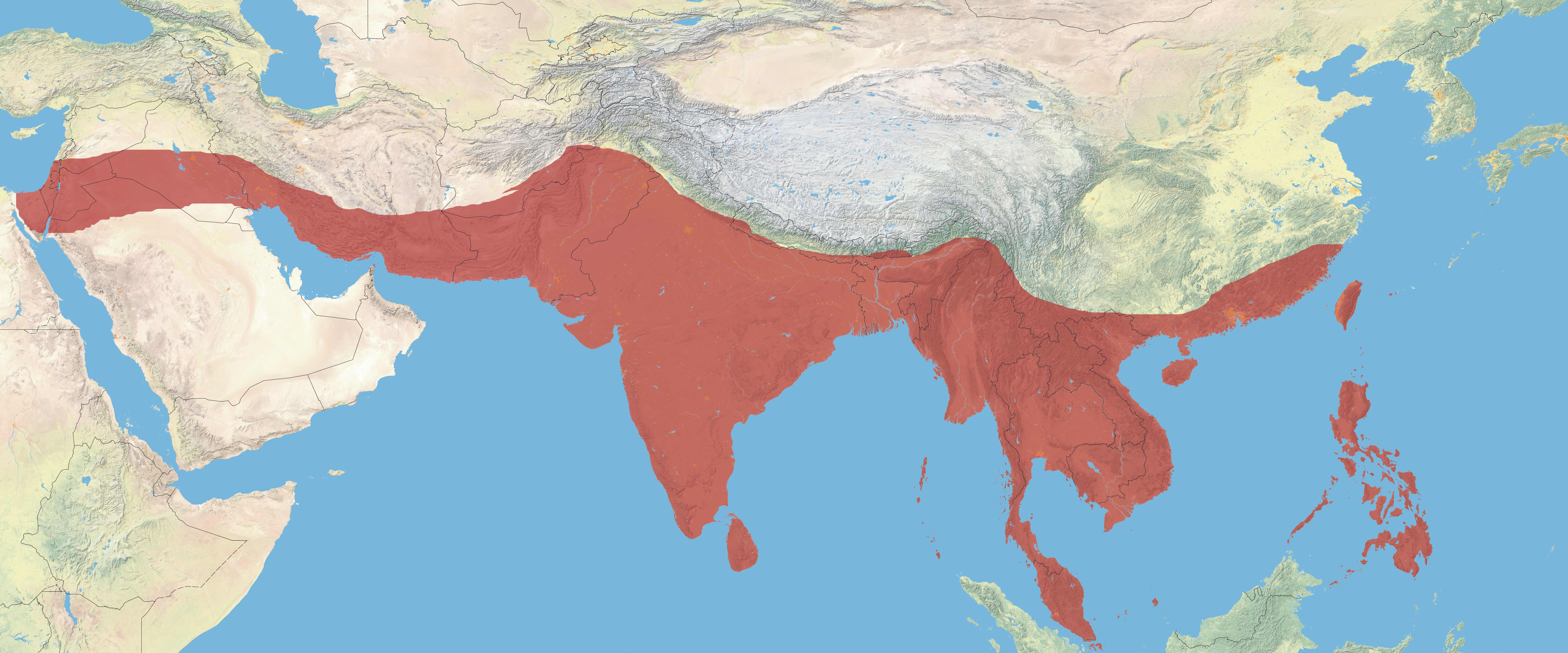 The Distribution of the White-throated Kingfisher